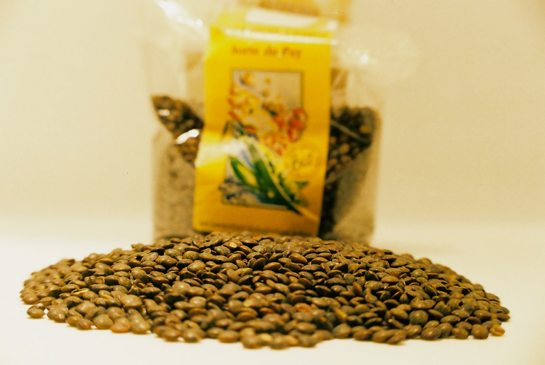 Le Puy Green lentil